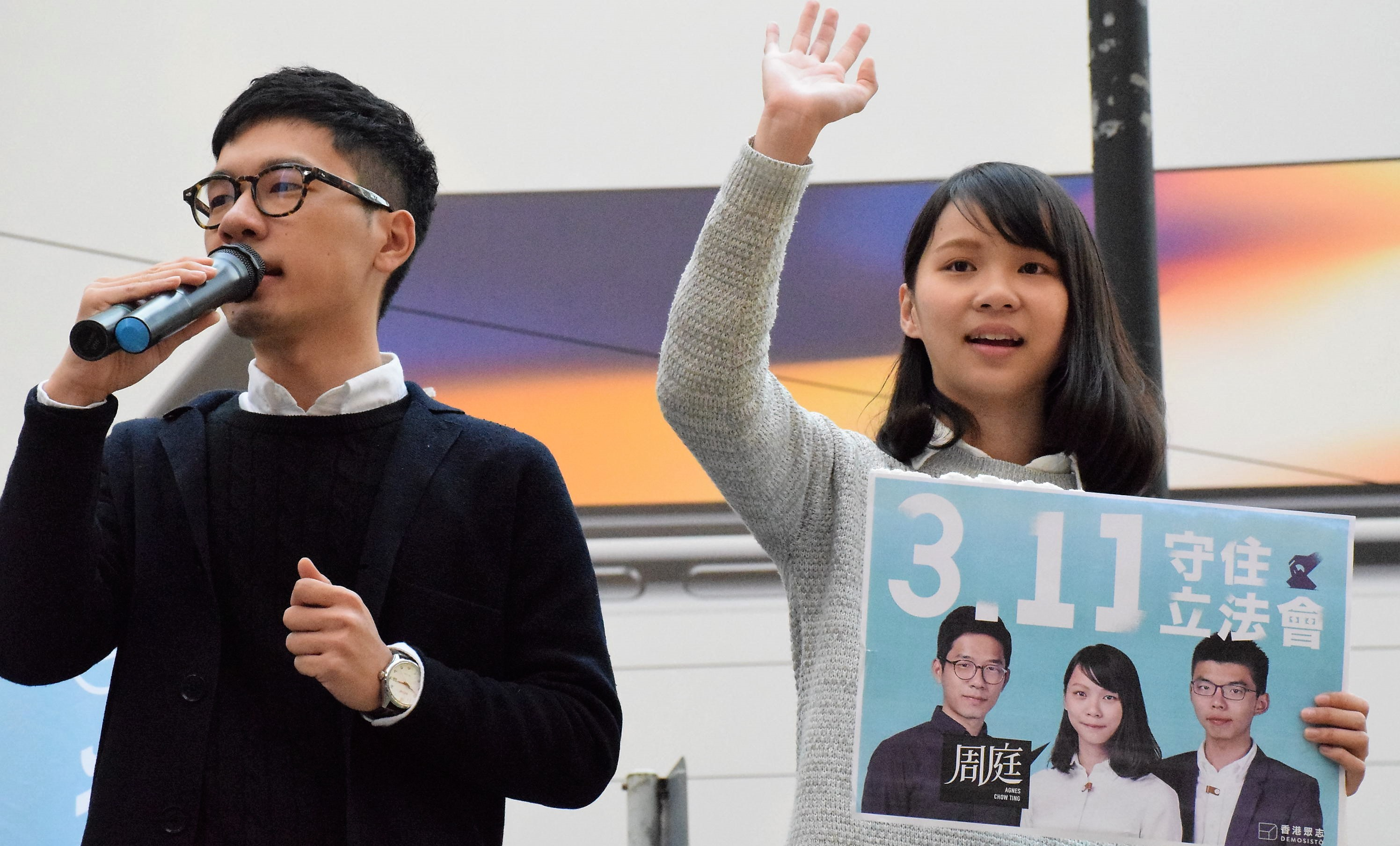 香港眾志主席羅冠聰 (圖左) (攝影：美國之音湯惠芸)